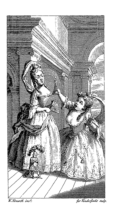 Frontispiece. Fielding, Henry. The tragedy of tragedies; or the life and death of Tom Thumb the Great. As it acted at the theatre in the Hay-Market. With the annotations of H. Scriblerus secundus. London: Printed for Harrison and Co., 1731.